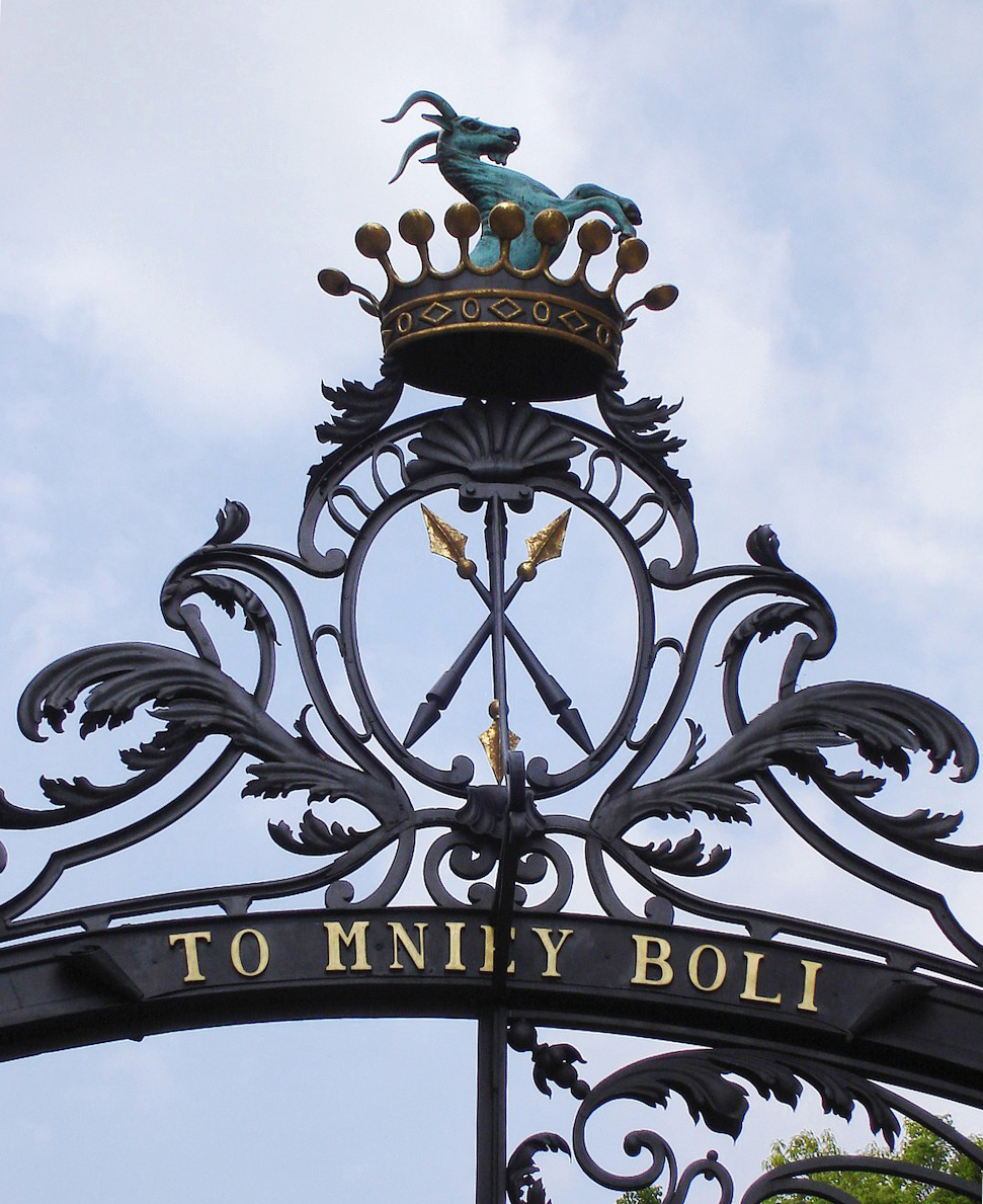 Palace Gate - Kozlowka